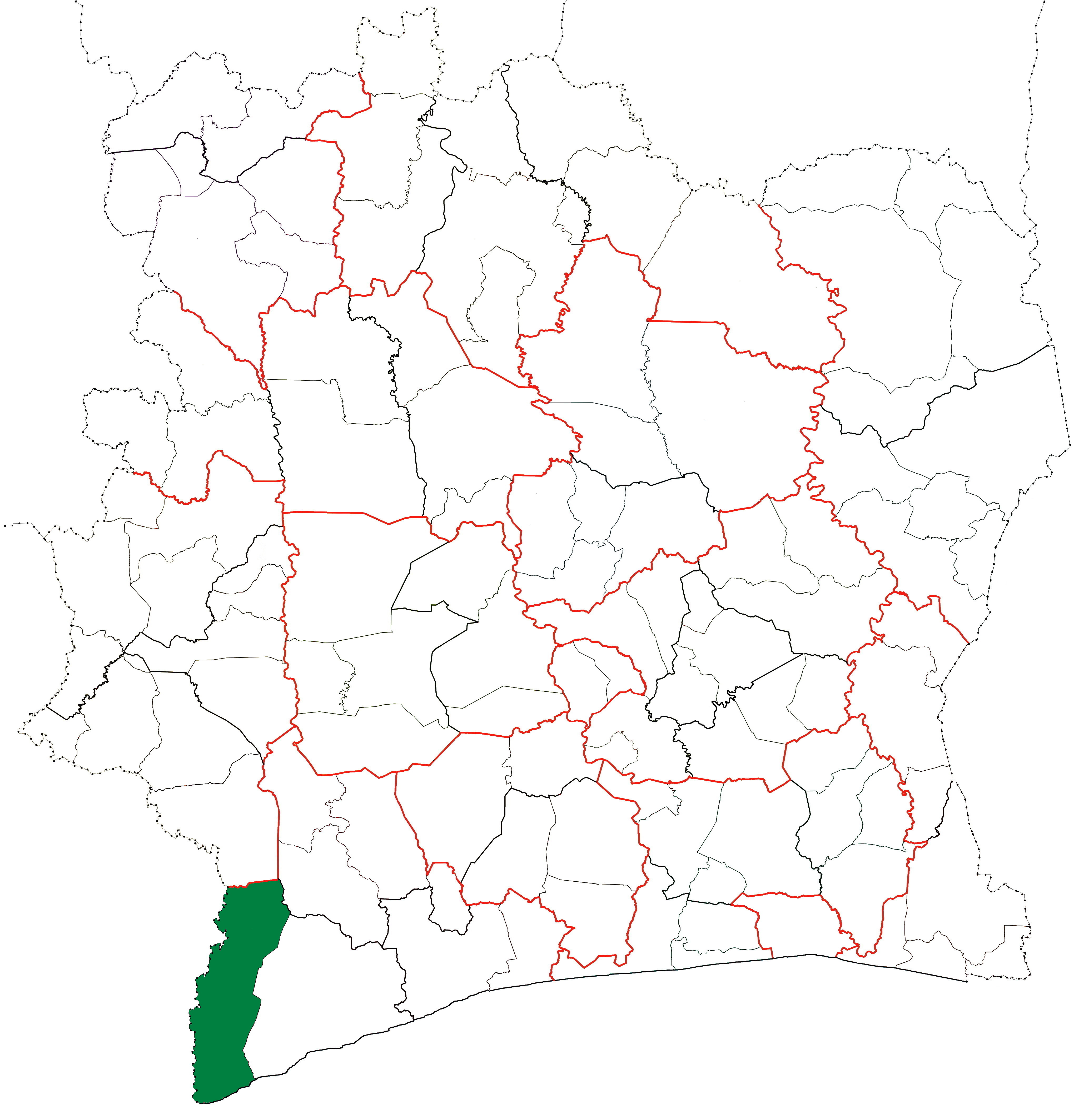 Locator map for Tabou Department in Côte d'Ivoire.